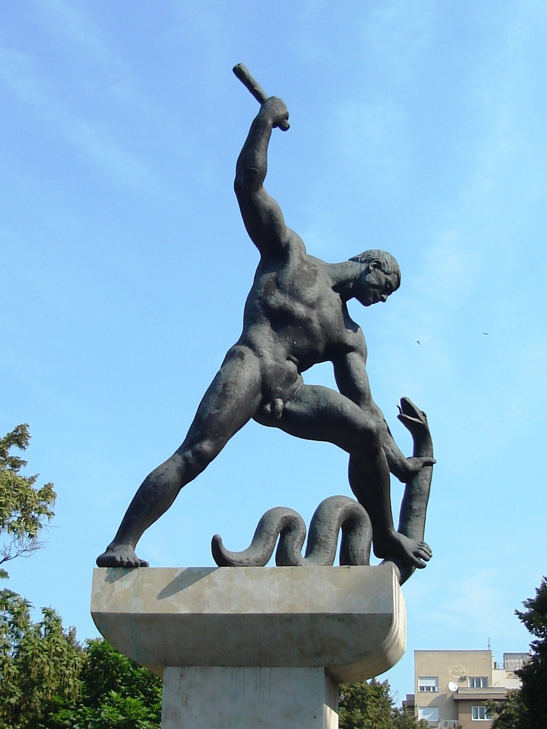 Memorial to Raoul Wallenberg (1912-1947?), Swedish diplomat who worked in Budapest, during World War II to rescue Jews from the Holocaust. The inauguration of the original monument carved by Mr. Pál Pátzay was scheduled April 9, 1949 by the Wallenberg Committee but the communist regime removed it during the previous night. The pedestal was destroyed, the sculpture was erected later in Debrecen (Hungary) but its origin was kept secret. Finally it was restored to the 50th anniversary of its demolition. (Budapest, District XIII, Szent István park).